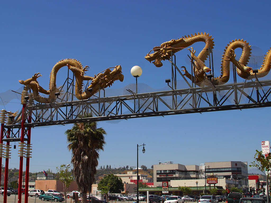 Los Angeles Chinatown. Taken from , according to this image is public domain